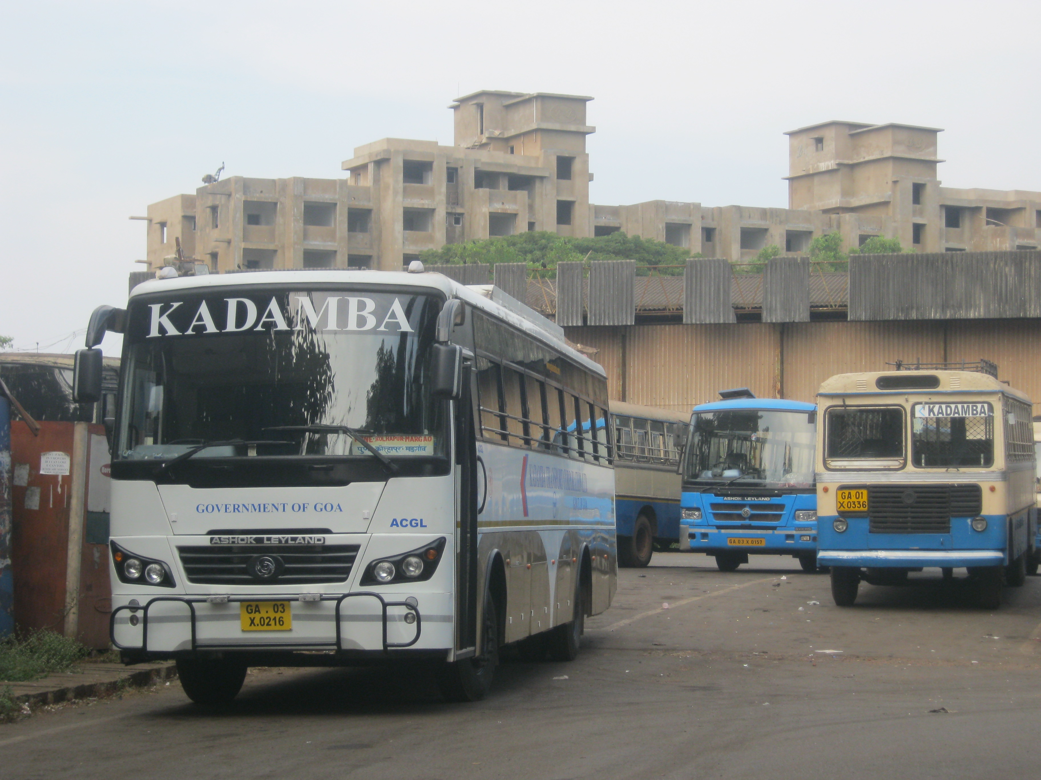 also in the picture are a standard bus (GA 01 X 0336)and a semi-low floor blue bus (GA 03 X 0157)